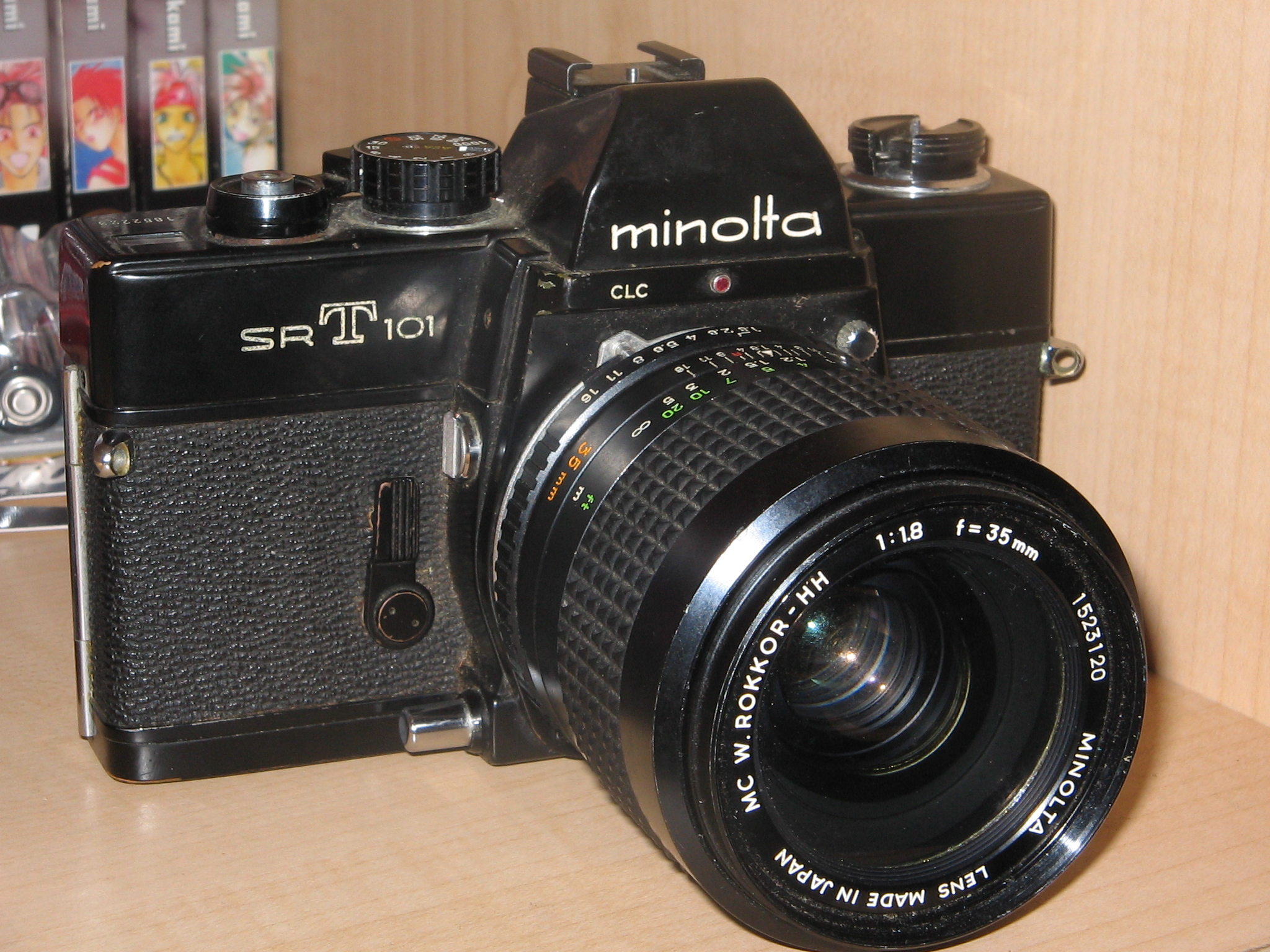 Minolta SR-T 101. I, Logan Crocker, took this picture and release it into public domain.